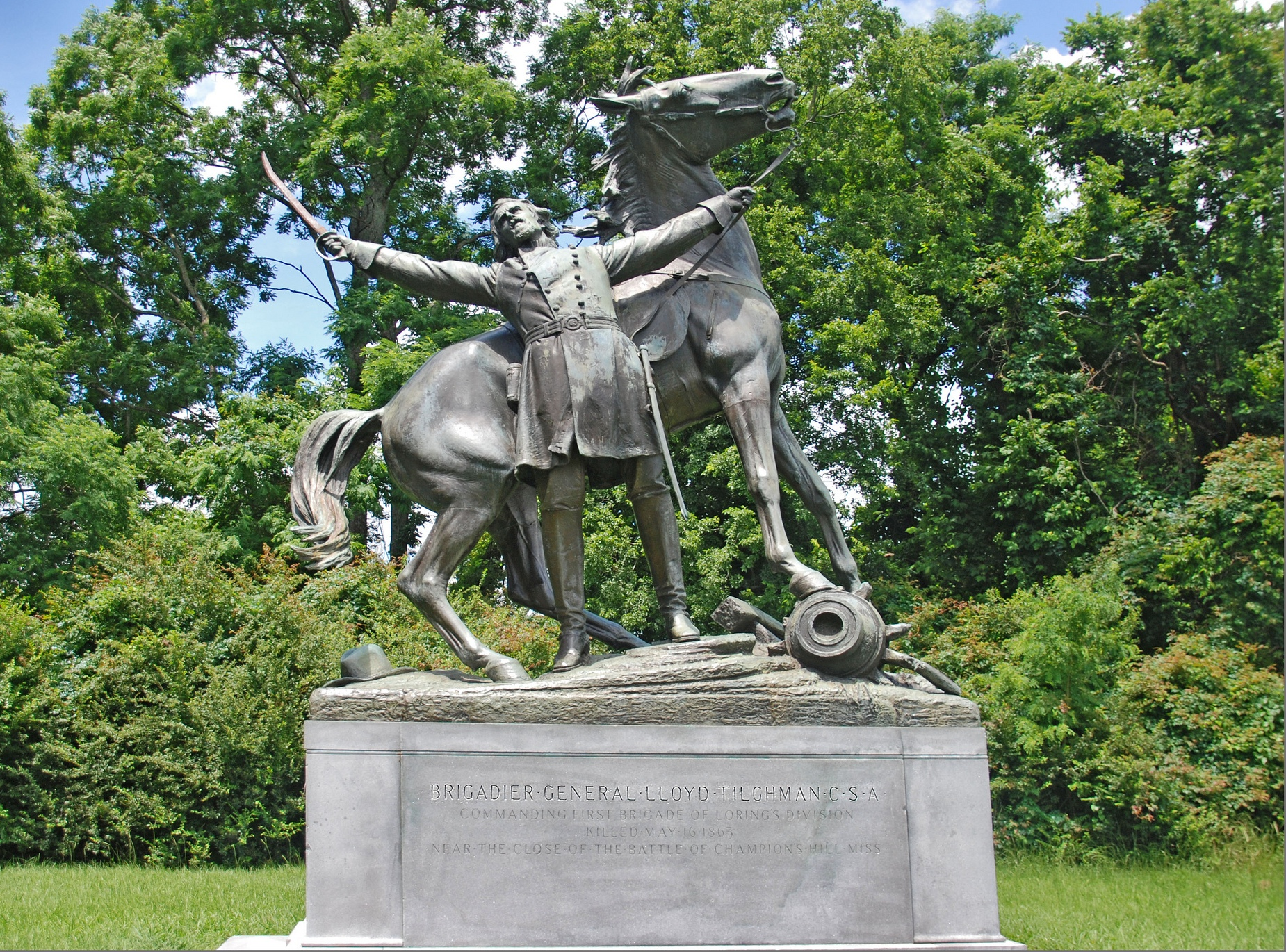 Confederate General Lloyd Tilghman Monument - Vicksburg National Military Park, Mississippi